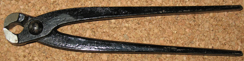 Rabitztang. This file was made by B. M. Askholm, Please credit this: B. Askholm photo, 2006 An email to B. Mathias at baskholm(--) would be appreciated too.